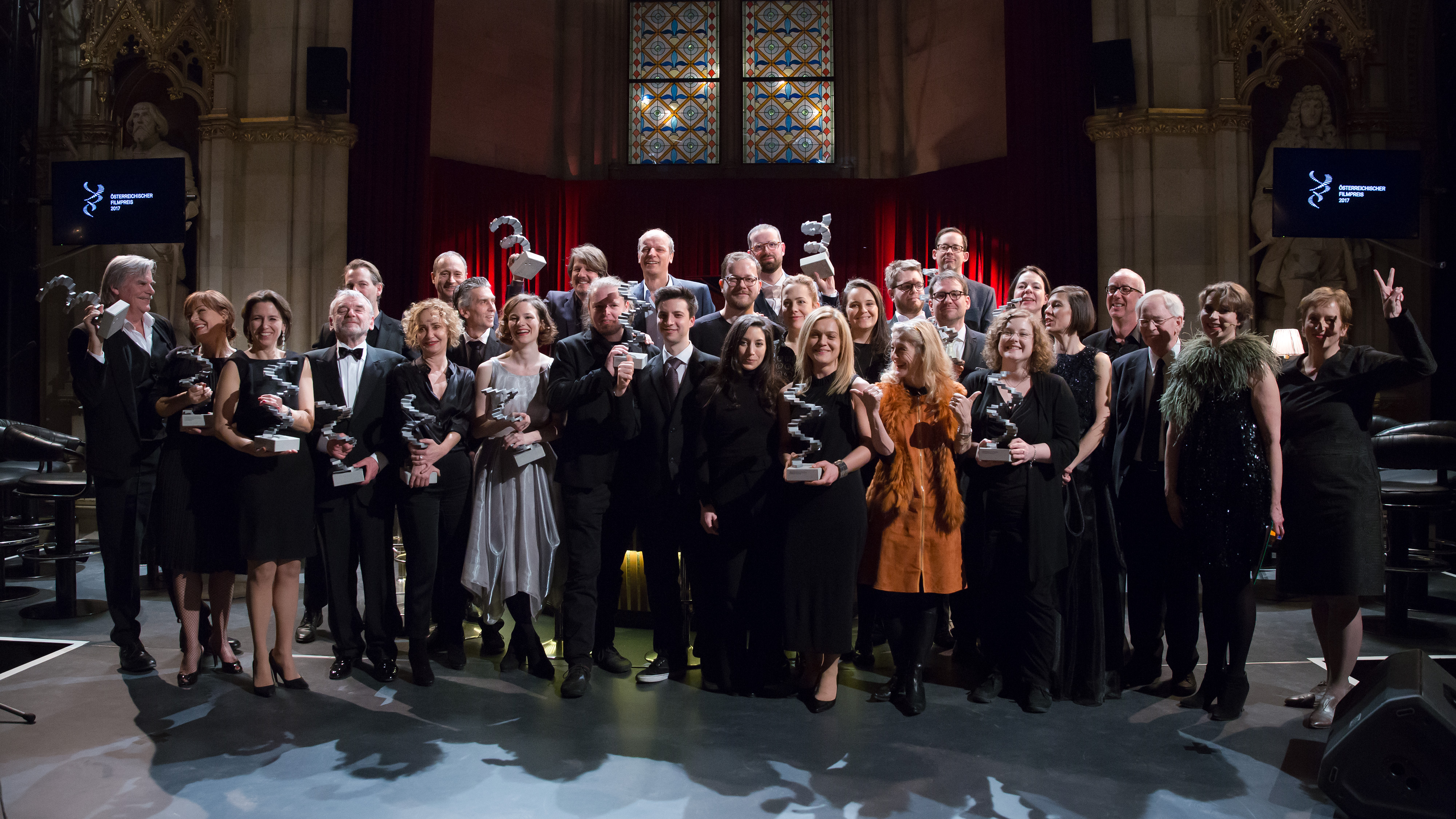 Awardees of the Austrian Film Awards 2017 (Rathaus, Vienna,Austria).